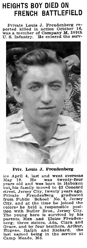 Heights Boy Died On French Battlefield.